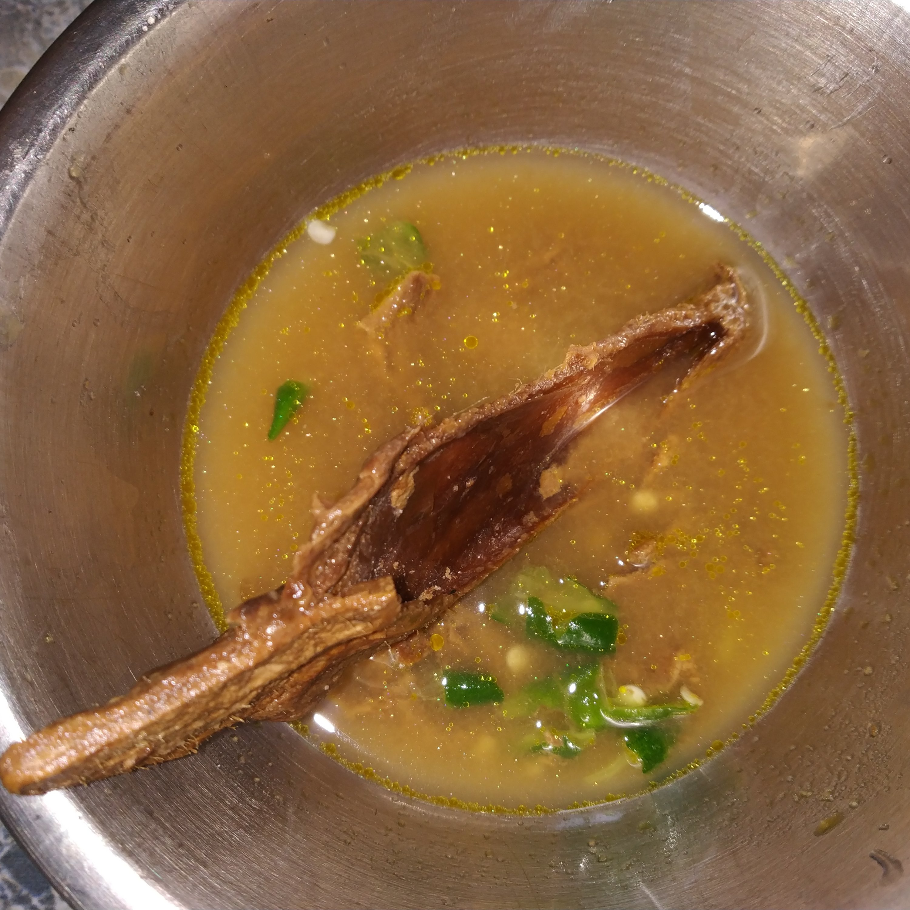 Ambula Pani This photo has been taken in the country: India